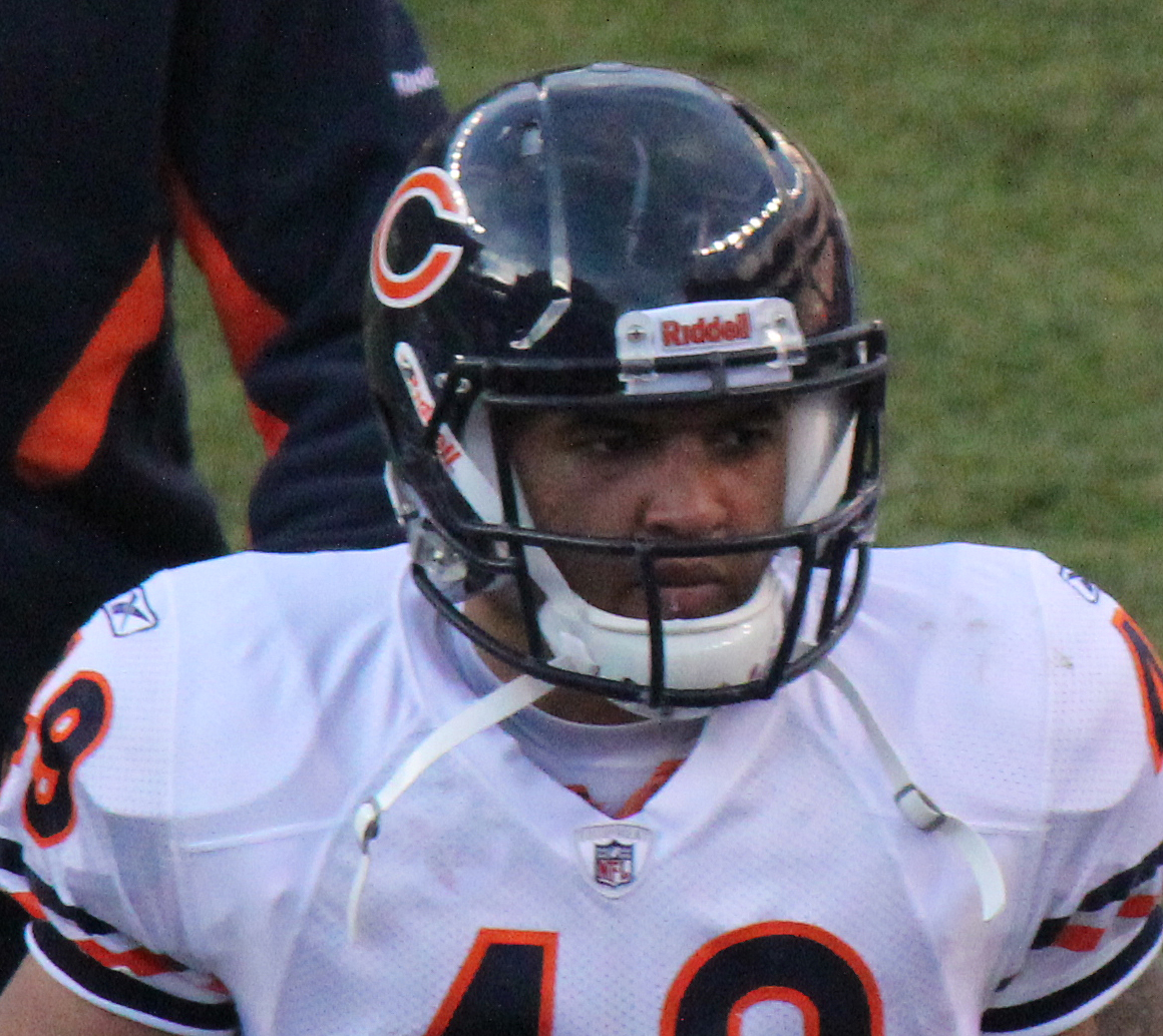 Winston Venable, a player on the National Football League.